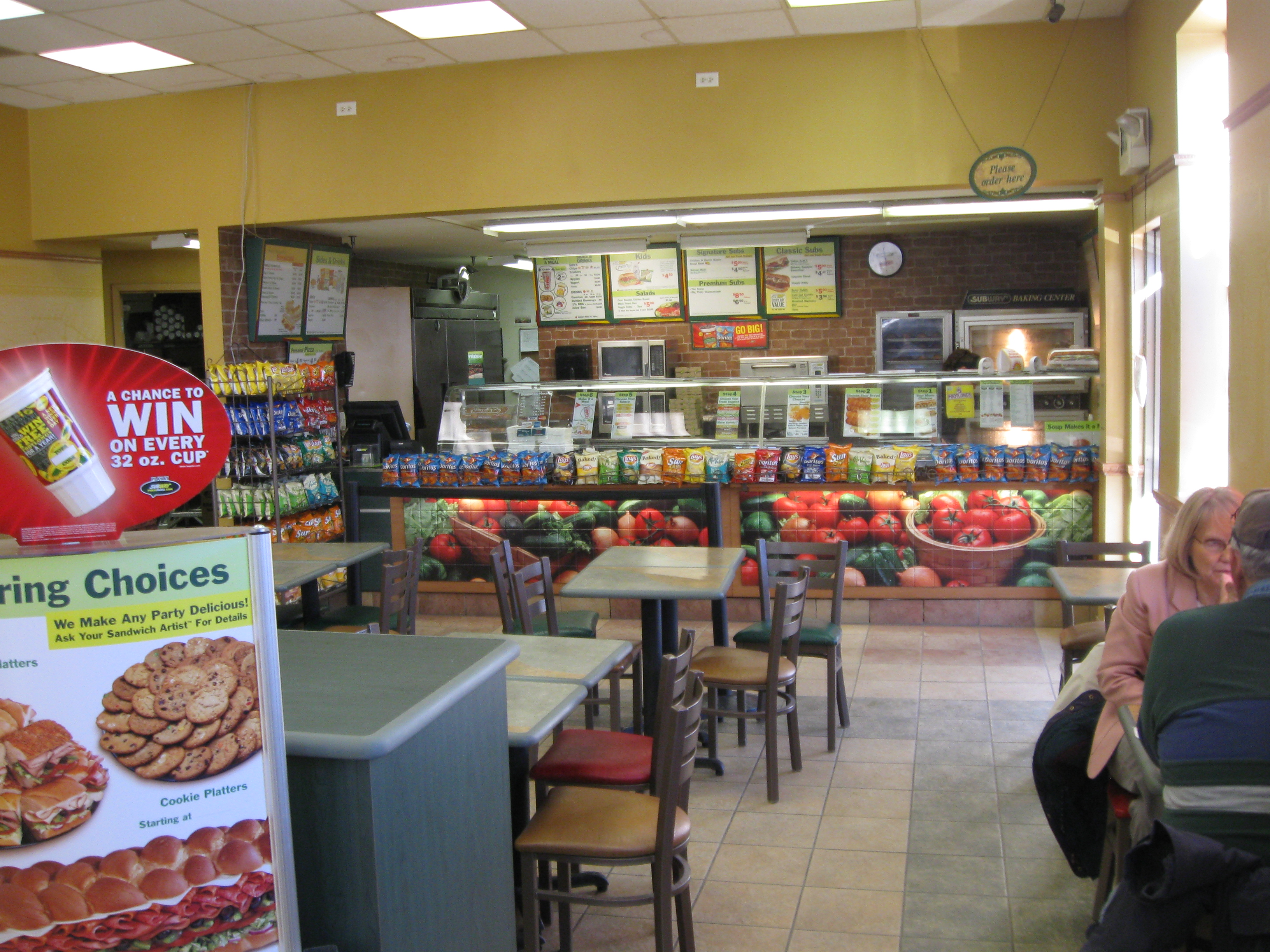 This is the inside of a Subway restaurant in Fairplay, Colorado. The restaurant is located inside a large gas station/convenience store. The restaurant is approximately 9,880 feet above sea level. This makes it noteworthy, as it is the highest Subway restaurant in the Continental Unites States of America.